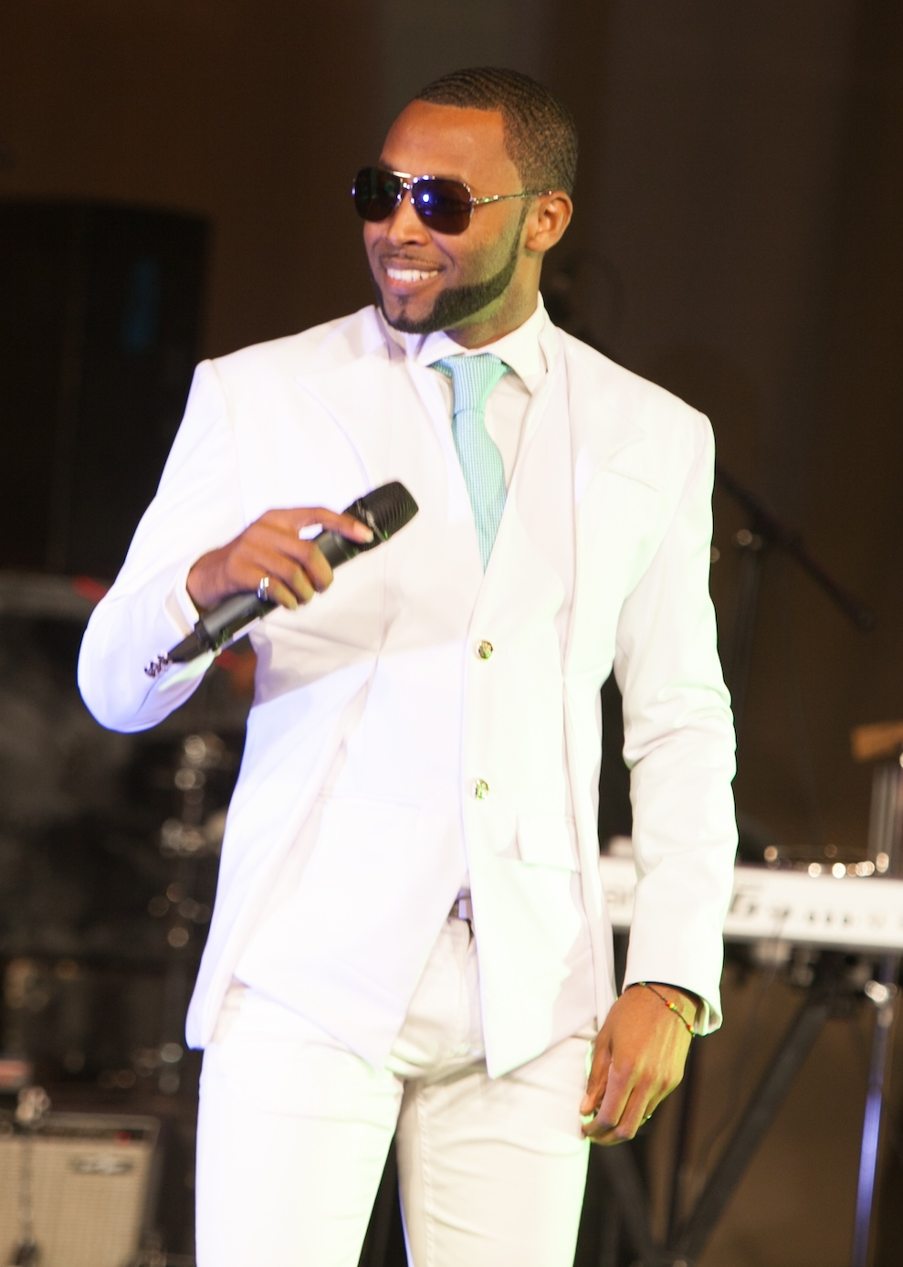 Gilyto on Stage